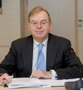 Picture of Bernard van de Walle de Ghelcke